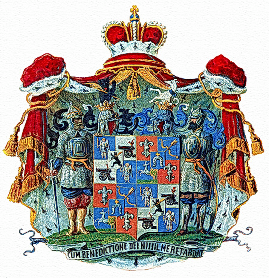 Coat of Arms of Shakhovskoy-Glebov-Streshnev family